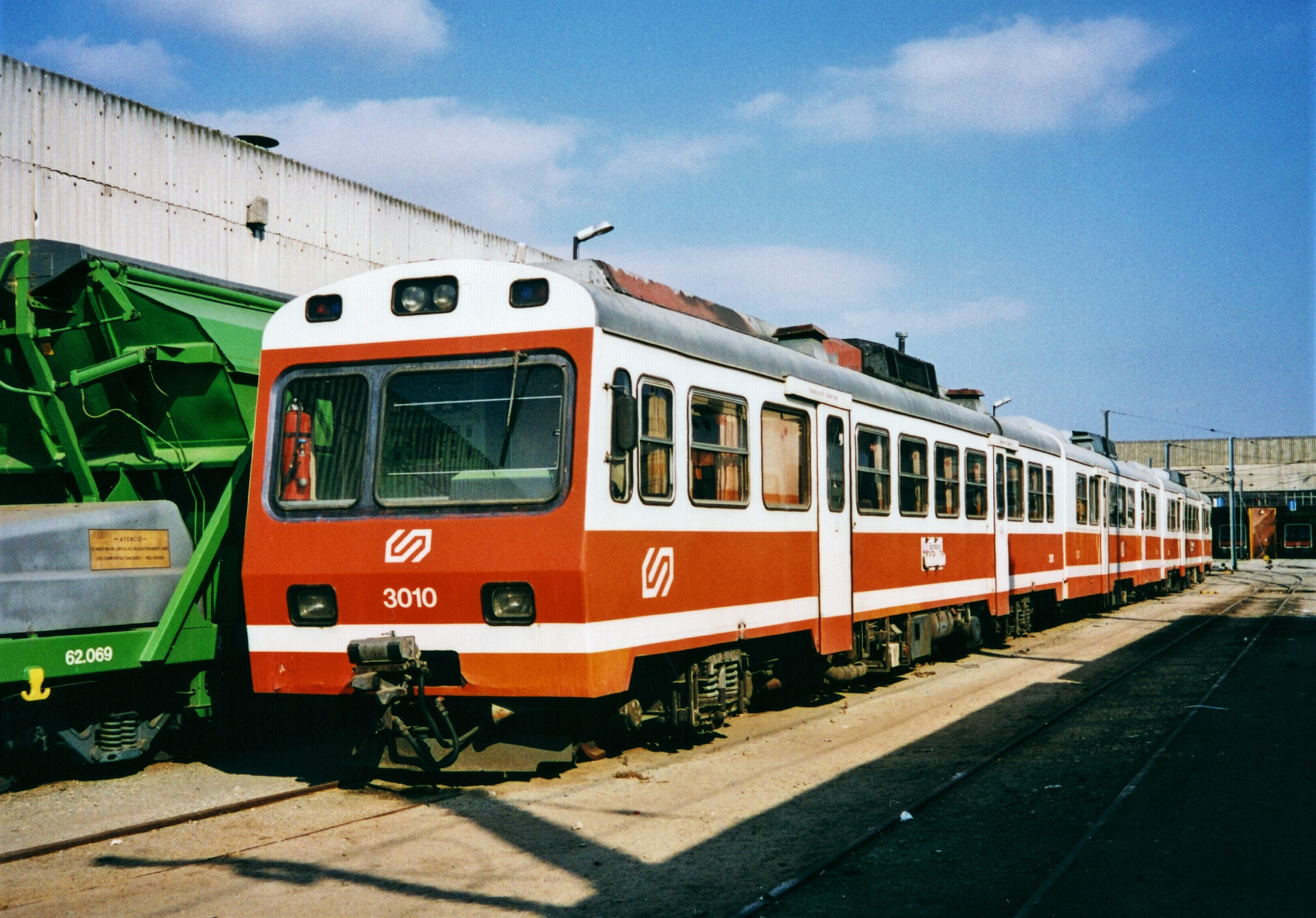 The DMU of FGC with cars 3010-3003-3011, out of service in Martorell Enllaç.